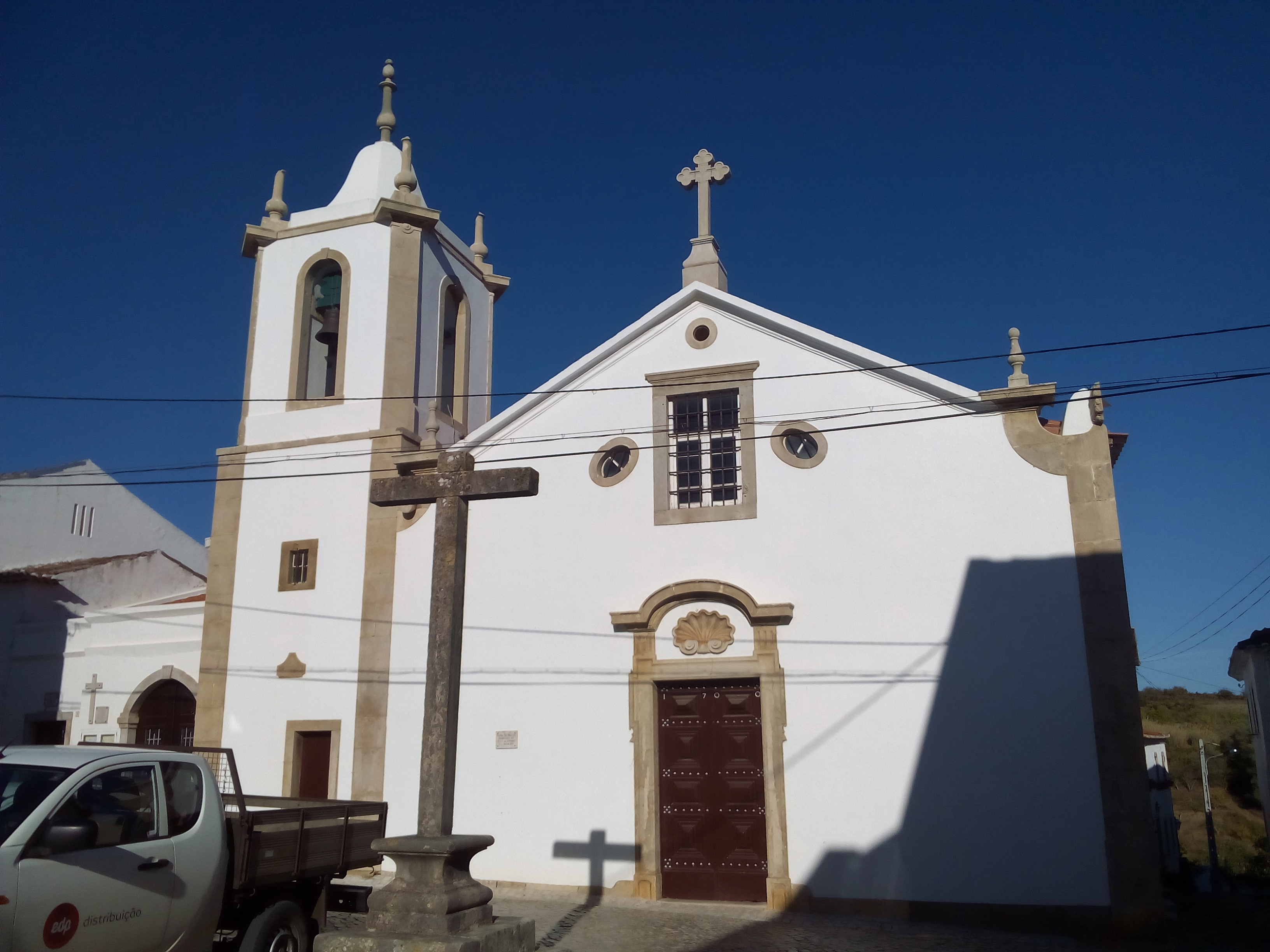 Church in the village of Carvalhal, in Bombarral, Portugal.